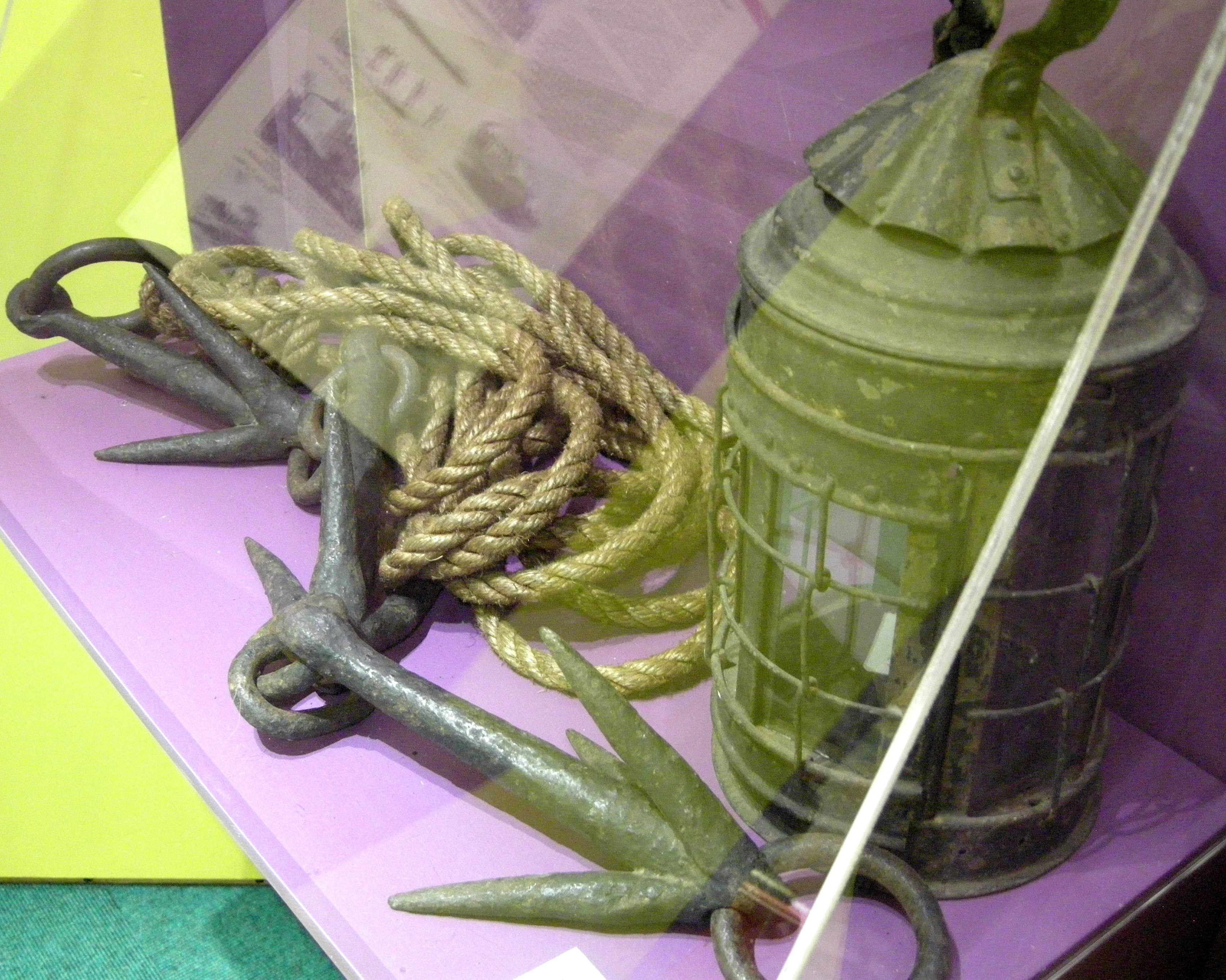 Herne Bay Museum, Herne Bay, Kent. A smugglers' creep: a form of grapnel apparently used for retrieving submerged contraband. Victorian lantern.